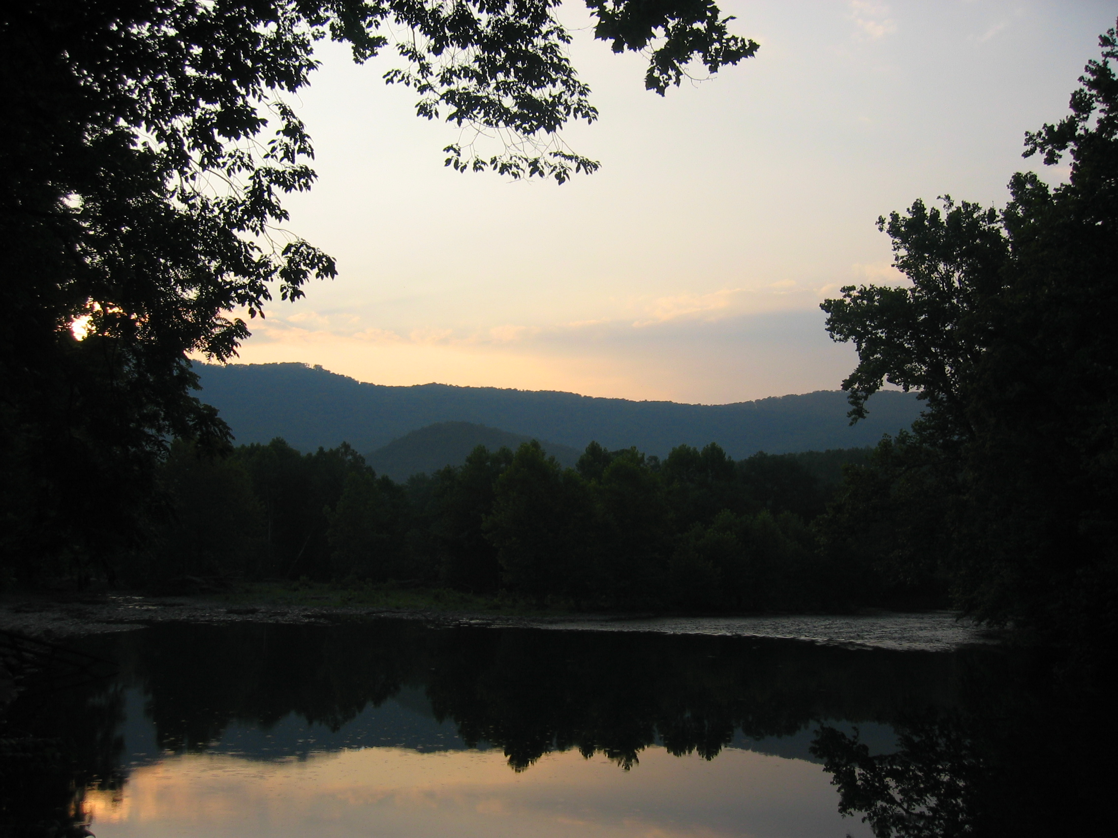 "Watts dock view - Cowpasture River, VA" (description from flickr)